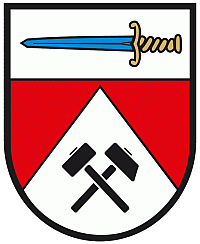 Coat of arms of Thomm.